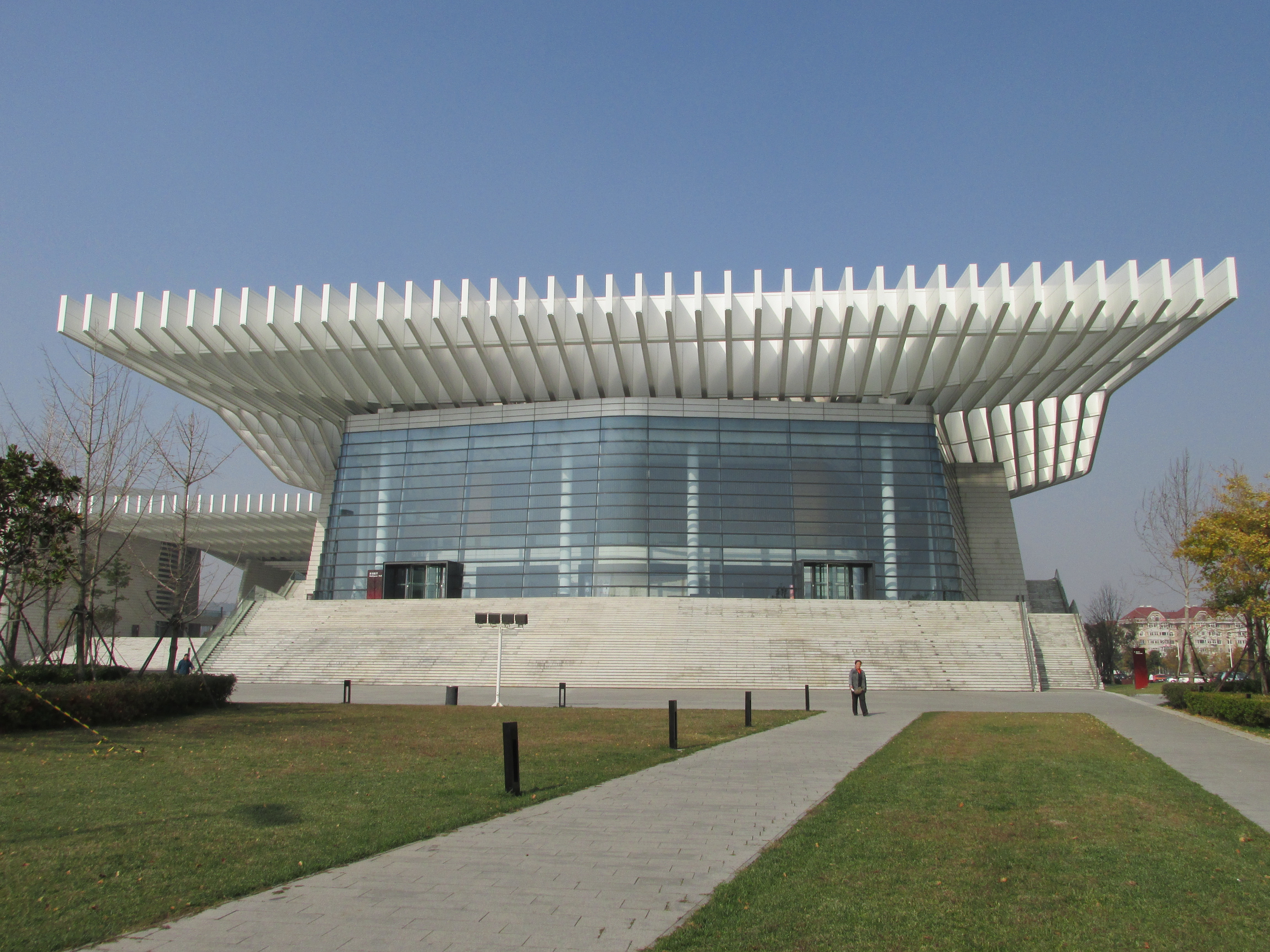 Picture of the Qingdao Grand Theatre in Laoshan District, Qingdao